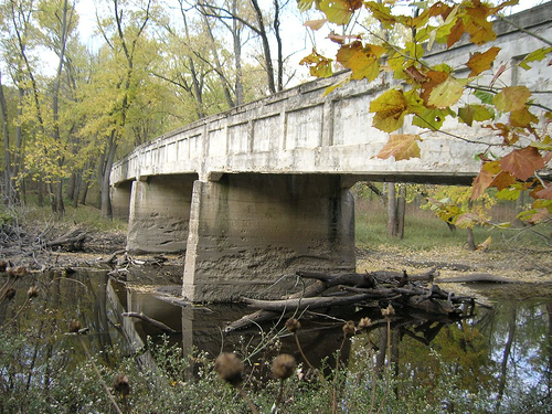 Abandoned bridge over the Sangamon River in Robert Allerton Park, Monticello, Illinois.